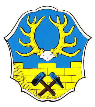 Coats of arms of the Prussian district of Rothenburg (Ob. Laus.) (1815–1845/47)